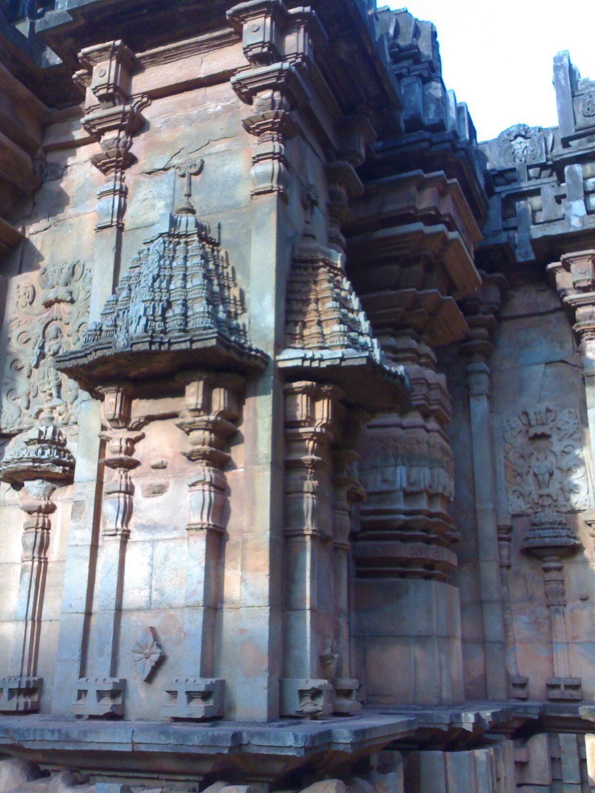 Chandramouleshwara temple Unkal Source and Author : Manjunath Doddamani, Gajendragad / Hubli, Karnataka(North), India